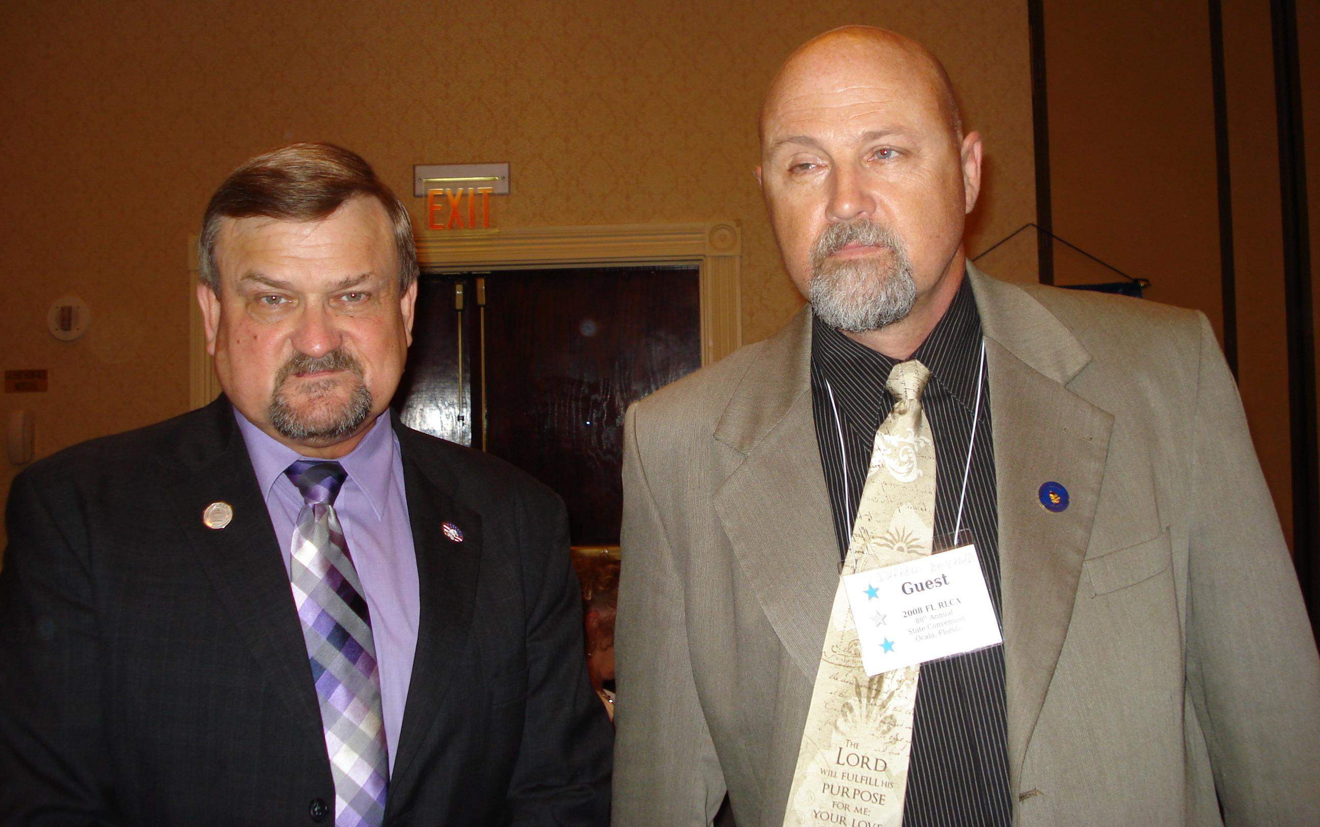 NRLCA Director of Steward Operations, Ronnie Stutts & Georgia RLCA President Darrell Whitehead